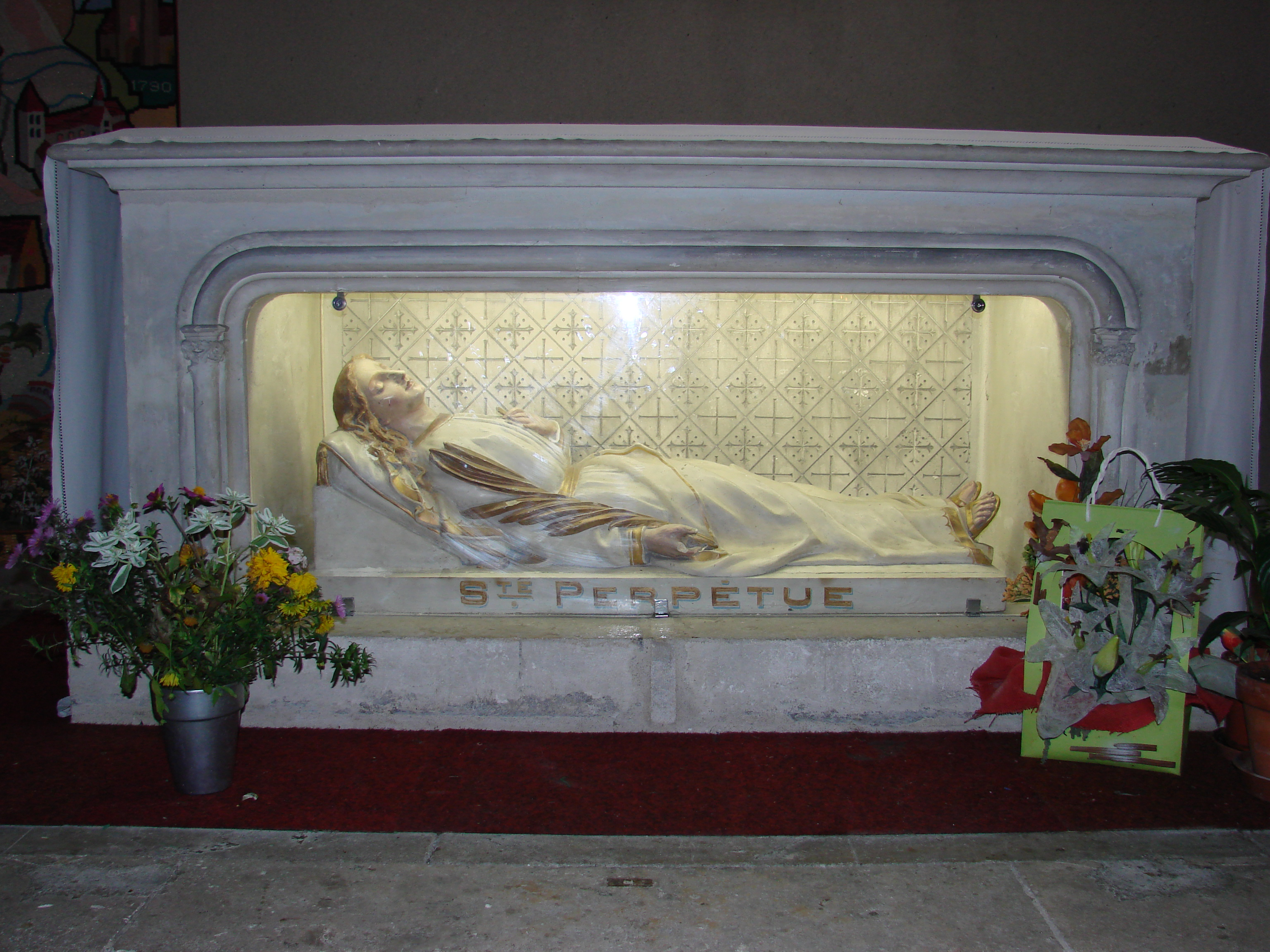 Shrine of St Perpetua (Church of Notre-Dame of Vierzon, France, 19th Century)